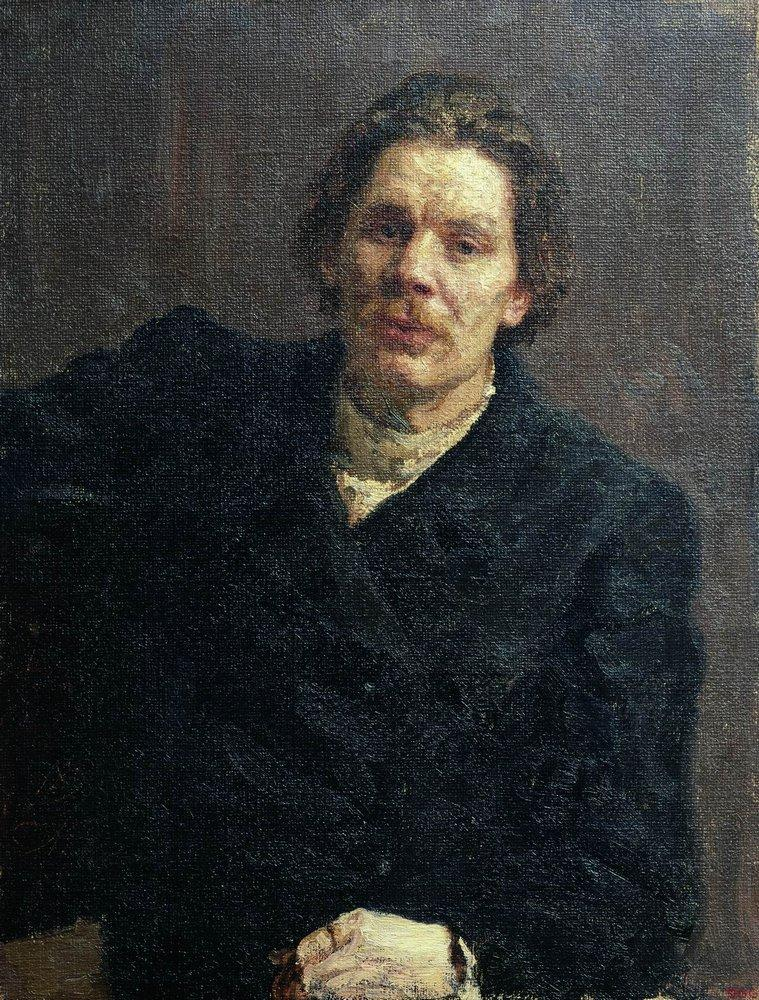 Portrait of writer Maxim Gorky (Aleksei Maksimovich Peshkov)